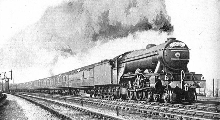 The "Flying Scotsman" at full speed LNER Engine No. 2547, "Doncaster," with corridor tender. Photo: F.R. Hebron